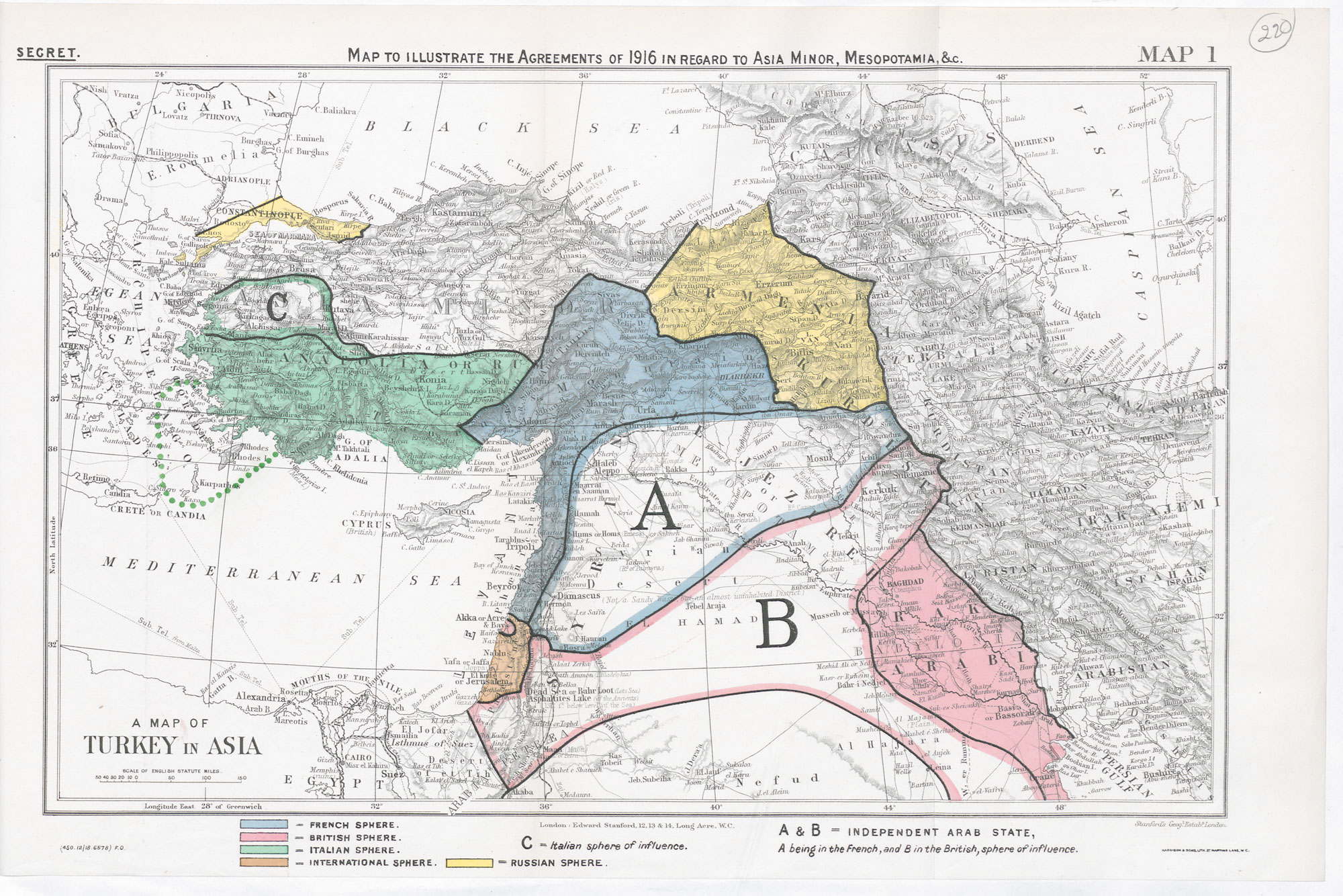 Sykes-Picot Division. Note: It is known that Saida (present Sidon in Lebanon) was wrongly marked on the location of Sur (present Tyre, just north of the brown area of Palestine). The correct location of Saida is north of the R. Litany. The Litani River thus flows between the two towns. See p. 12 of the 2nd source.